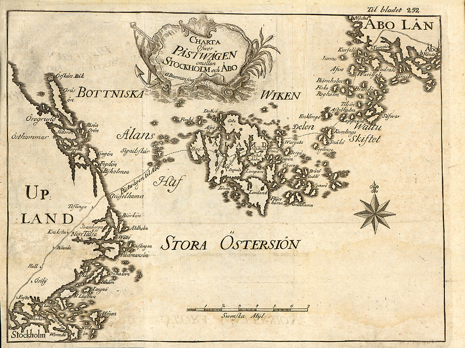 Map over the postal route between Stockholm and Åbo (Turku) 1749